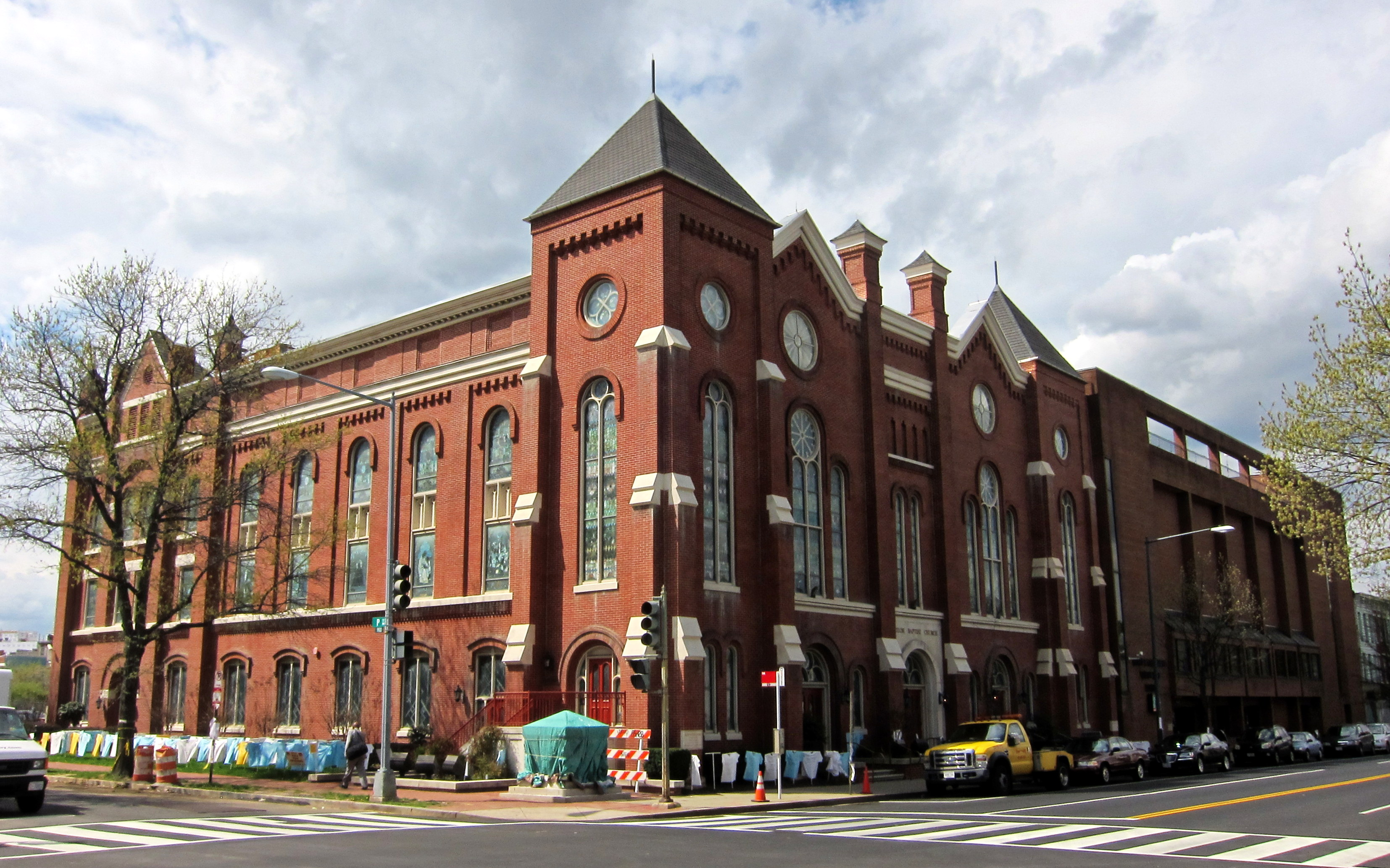 Shiloh Baptist Church located at 1500 9th Street NW in the Shaw neighborhood of Washington, D.C.